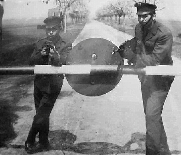 Border Protection Forces in Krzanowice